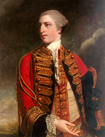 Portrait of Charles Fitzroy, 1st Baron Southampton (1737-1797)